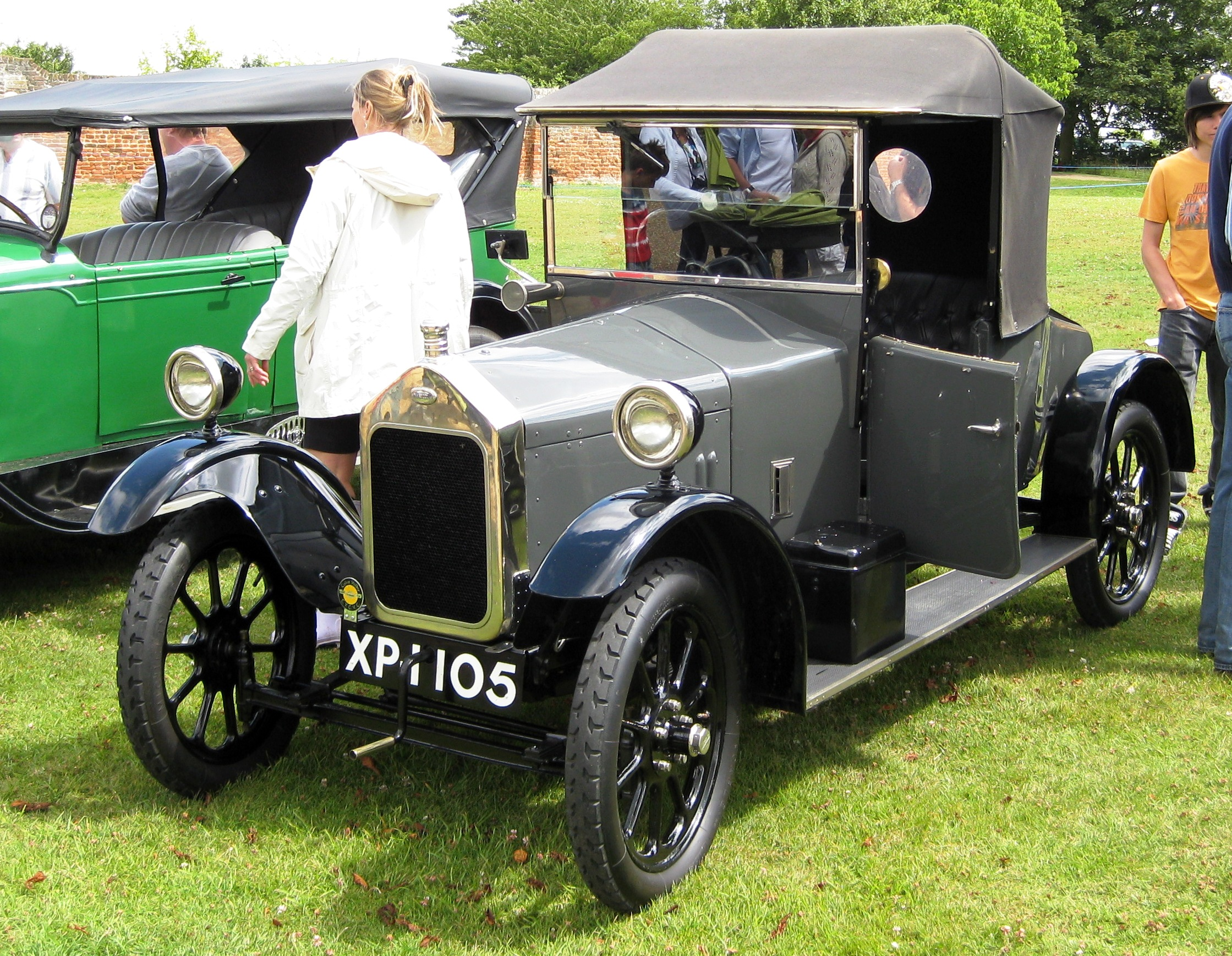 Small Wolseley 1923